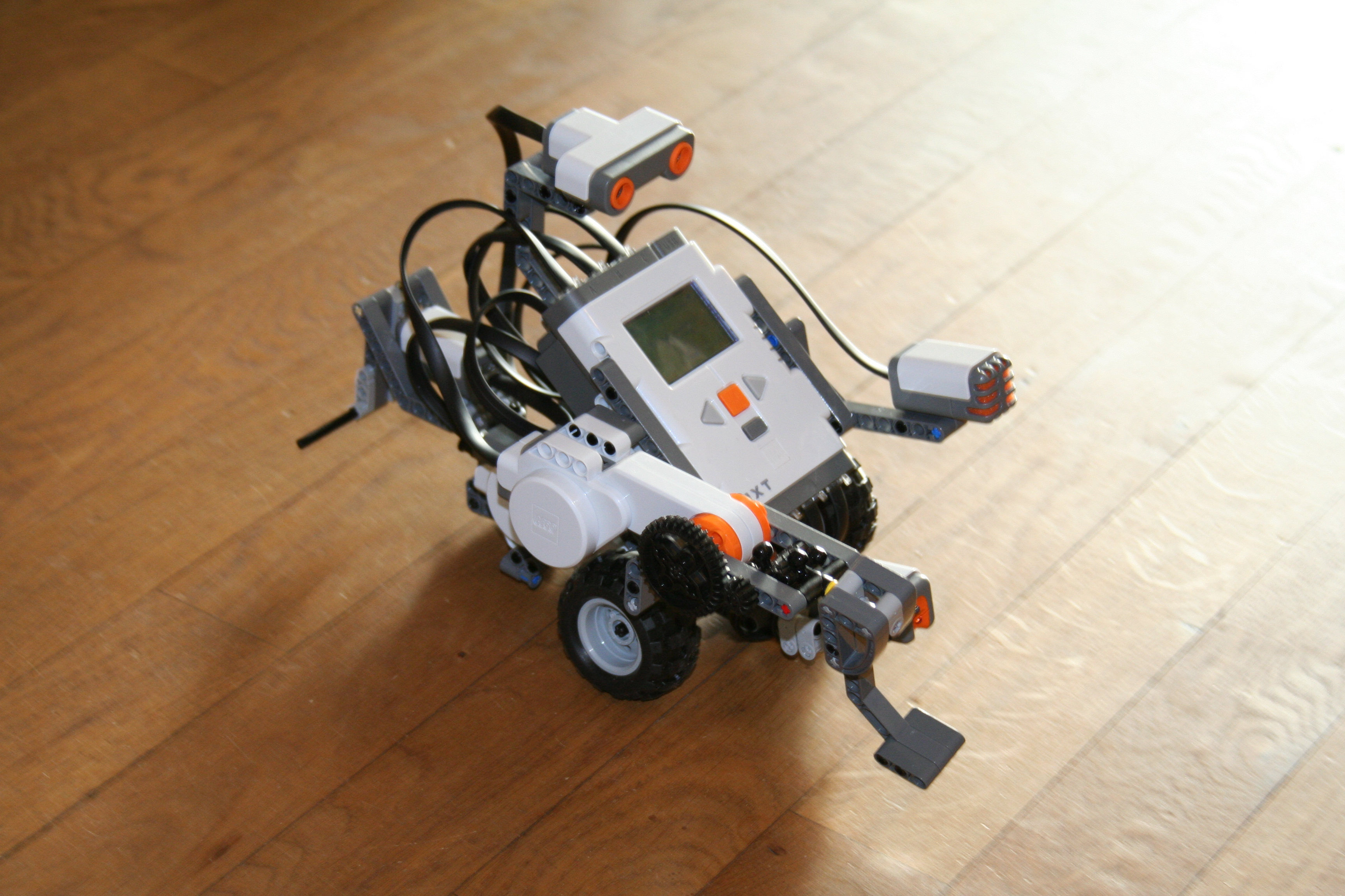 This poor, little robot fella panicked and ran the other way as soon as its sound sensor registered sound that was just a little bit too loud. Taken during the Scandinavian FLL Project Leader Meeting in Aarhus, February 2006.